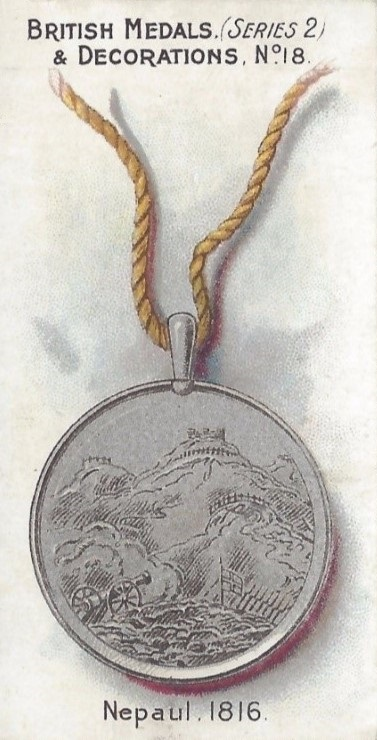 Medal awarded to Honourable East India Company native soldiers for Nepaul campaign of 1816, depicted on Taddy cigarette card